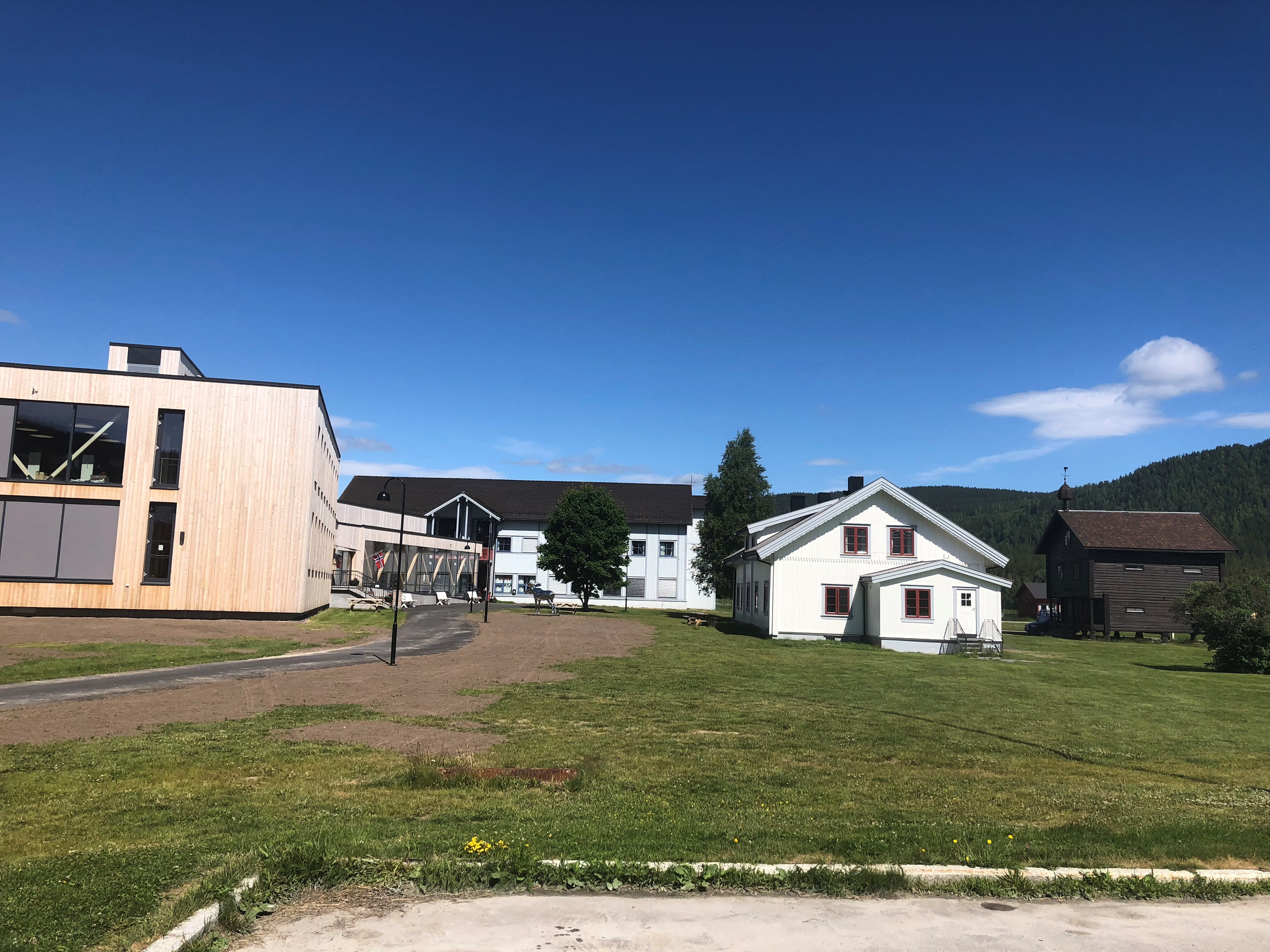 Campus Evenstad of Inland Norway University of Applied Sciences, the Faculty of Forestry and Wildlife Management